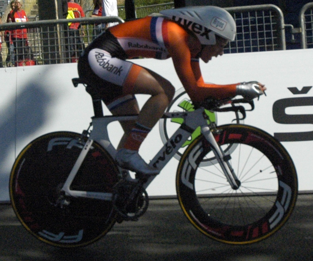 2013 UCI Road World Championships, junior women's TT, Floor Mackaij